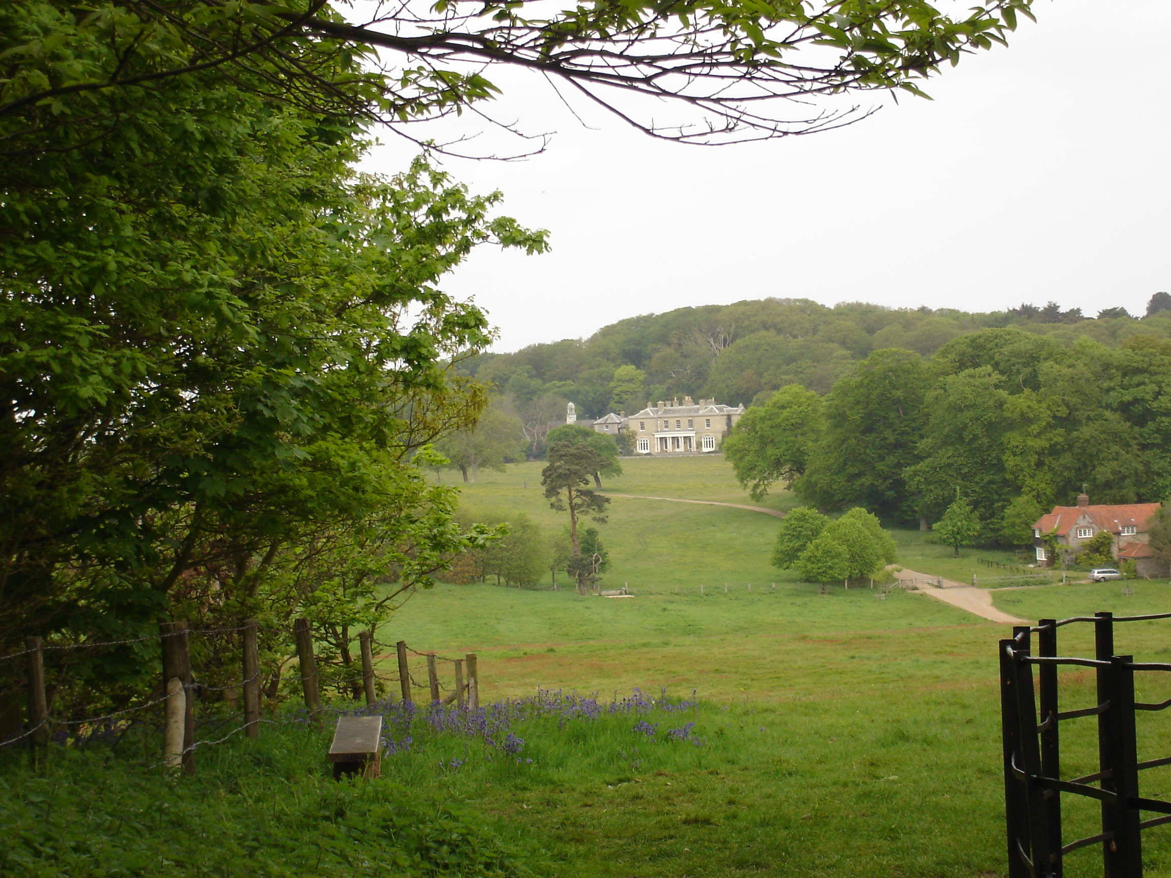 A view of Sheringham Hall at Sheringham Park, Norfolk